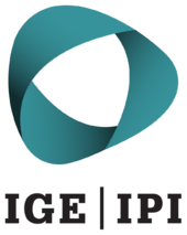 Designed by Hofer AG Kommunikation – Werbeagentur Bern, Schweiz.